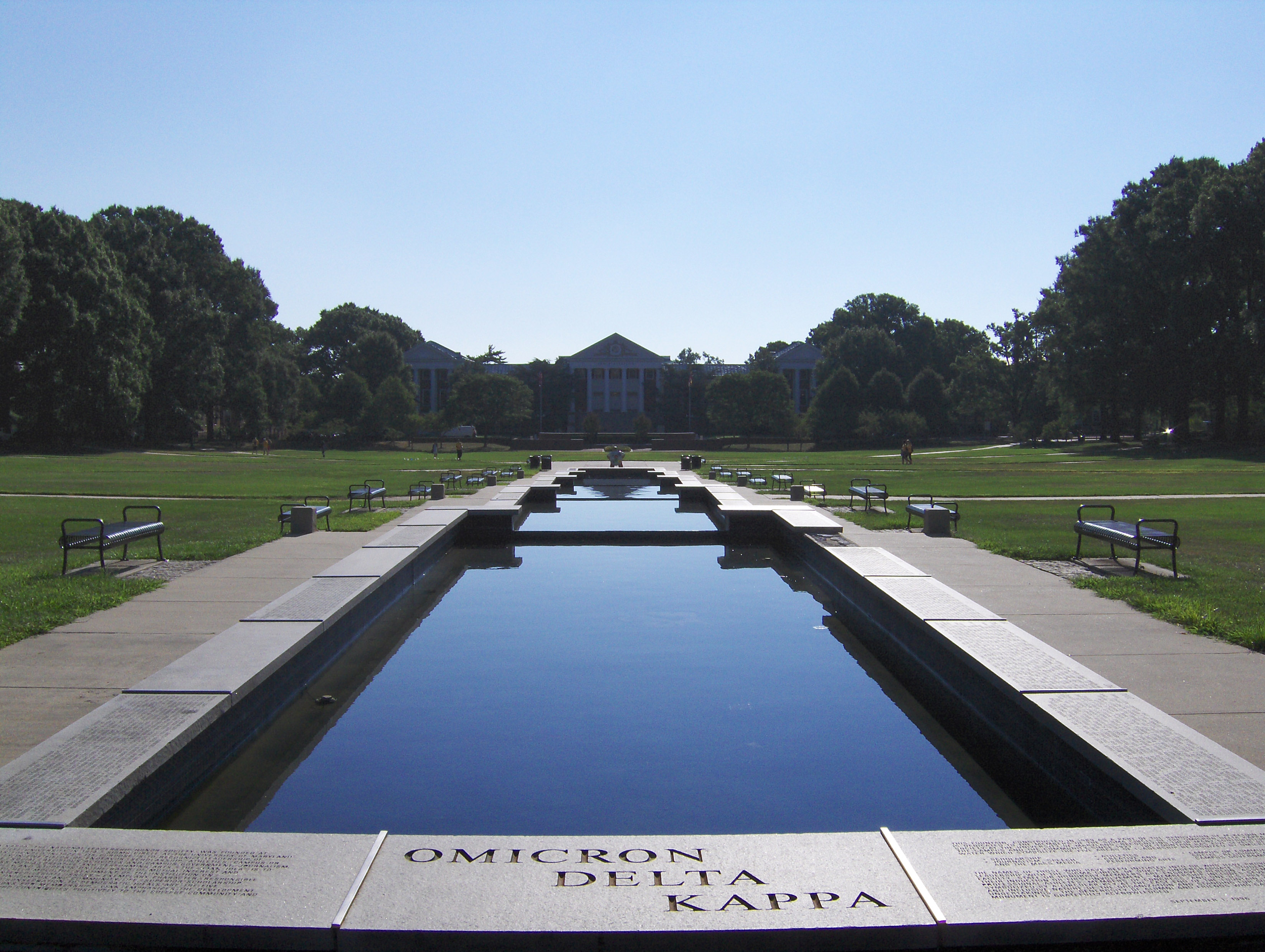 Administration building at the University of Maryland, College Park, seen in morning light at the end of the reflecting pool on the Mall.